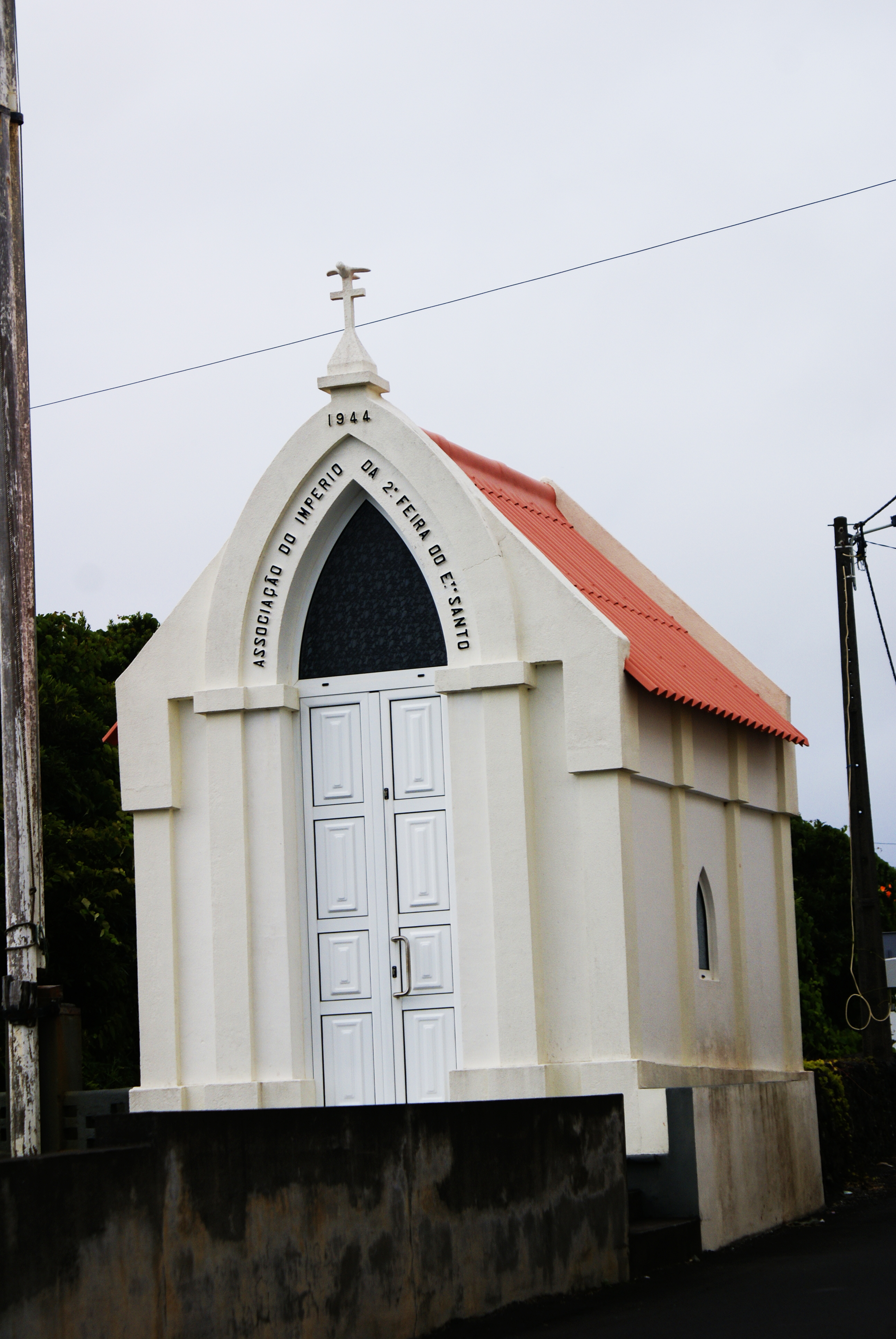 Império do Espiríto Santo, Valverde, concelho da Madalena do Pico, ilha do Pico, Açores, Portugal